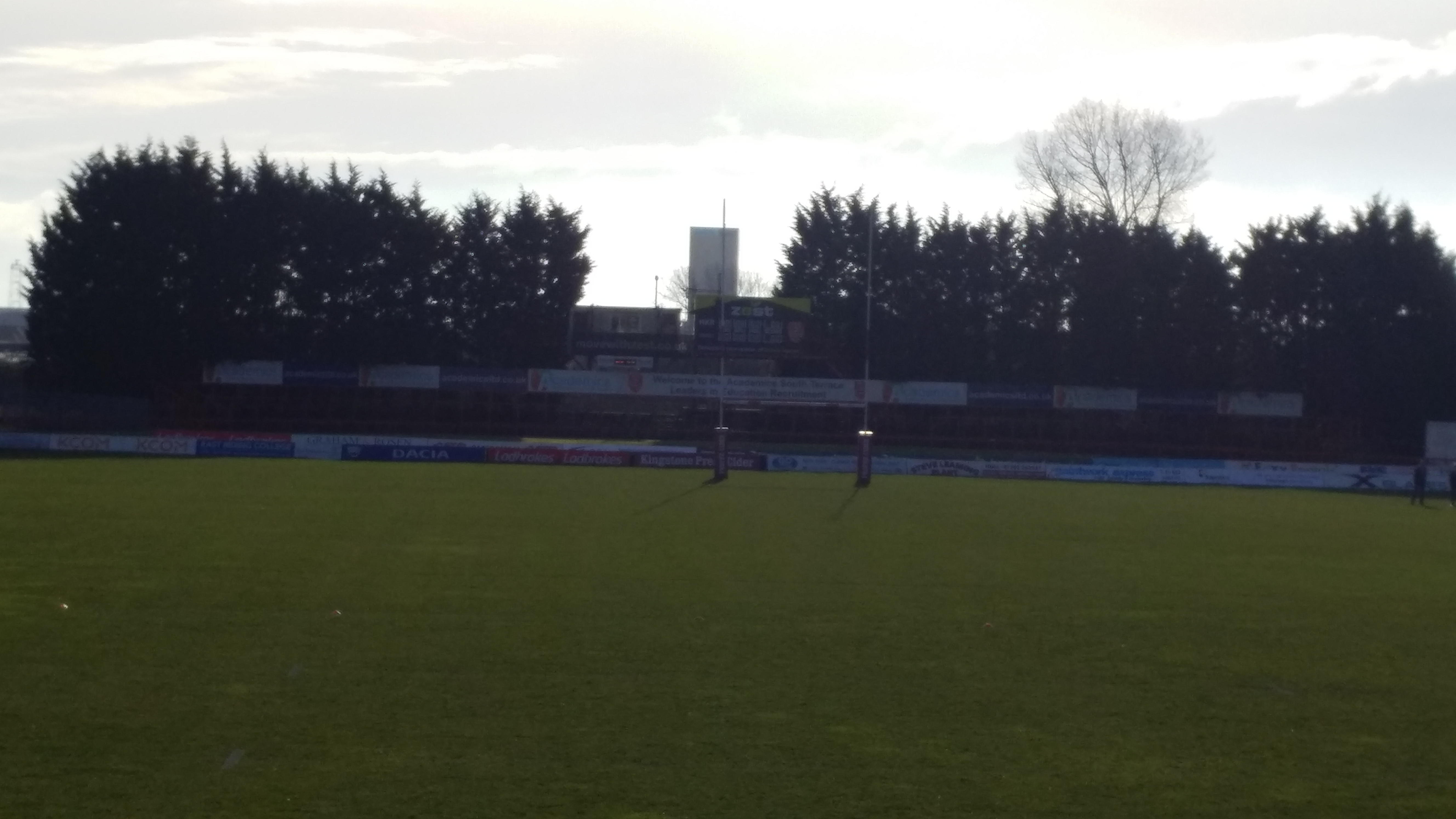 The Academics South Terrace at KCOM Craven Park.